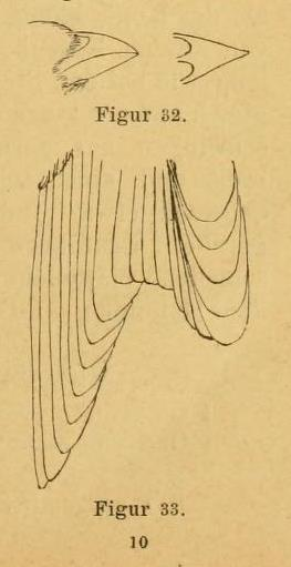 Ernst Harter illustration on Carpospiza brachydactyla